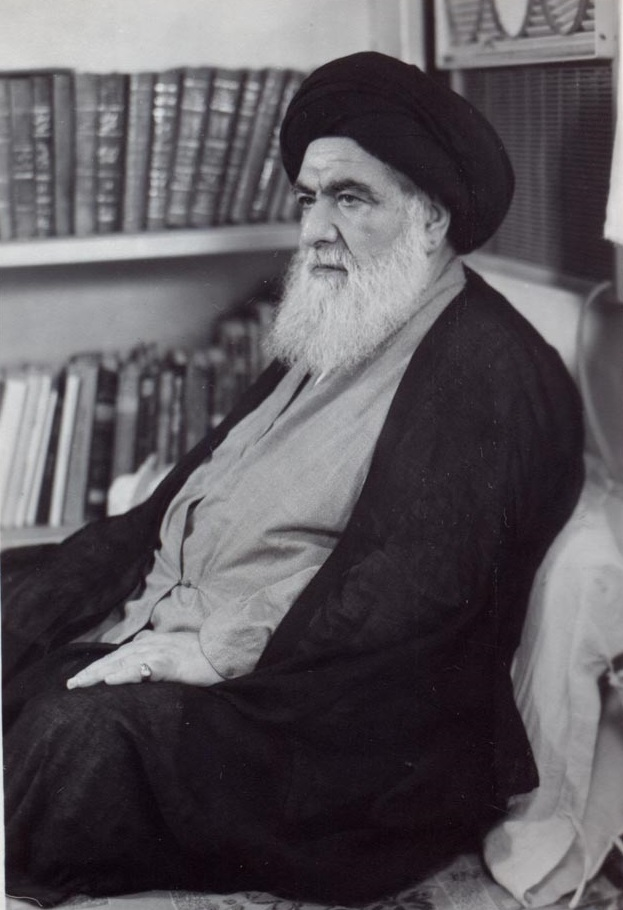 Abu al-Qasim al-Khoei, probably in the early 1970s